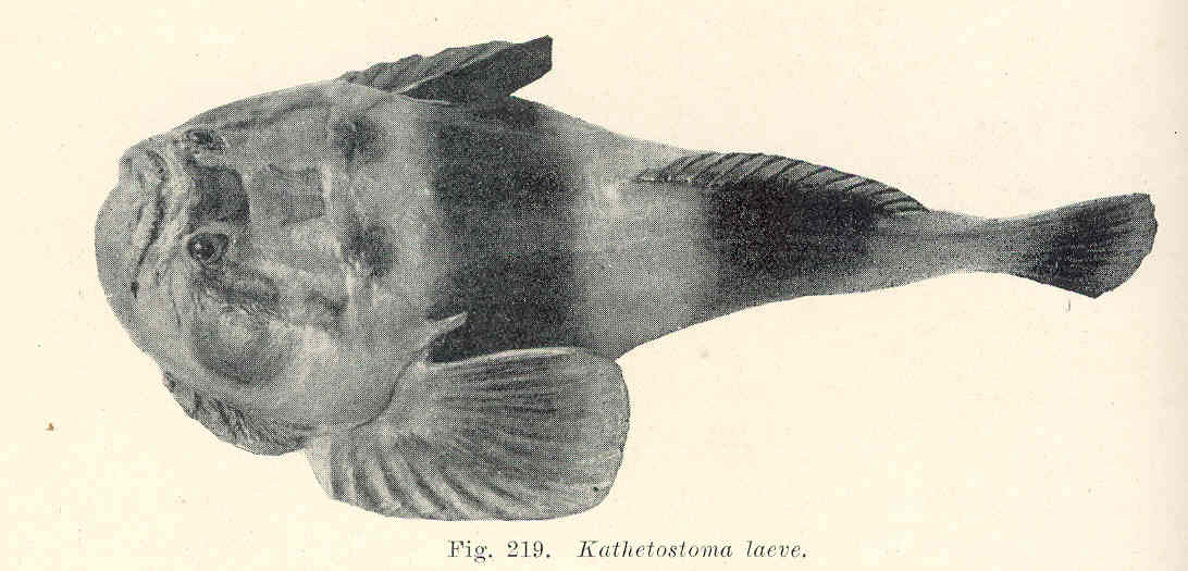 Kathetostoma laeve Subject: Stargazers (Fish), Kathetostoma Tag: Fish